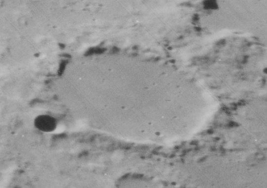 Oblique view of Neison crater, facing northwest, on the moon.